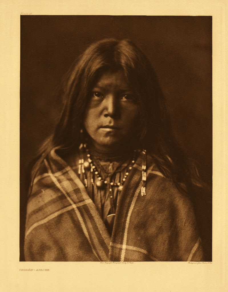 Chideh - Apache